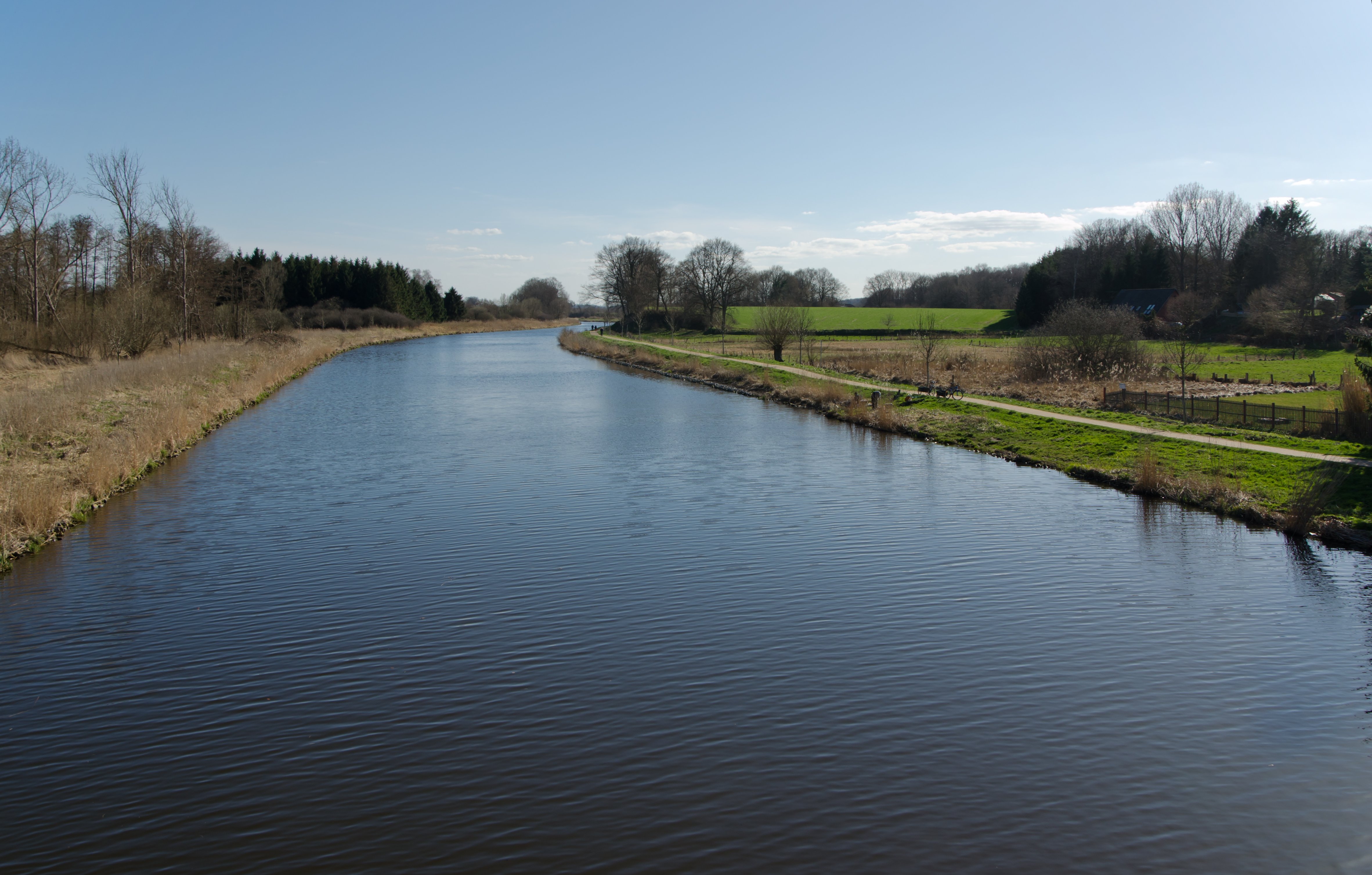 Elbe-Lubeck Canal near Berkenthin